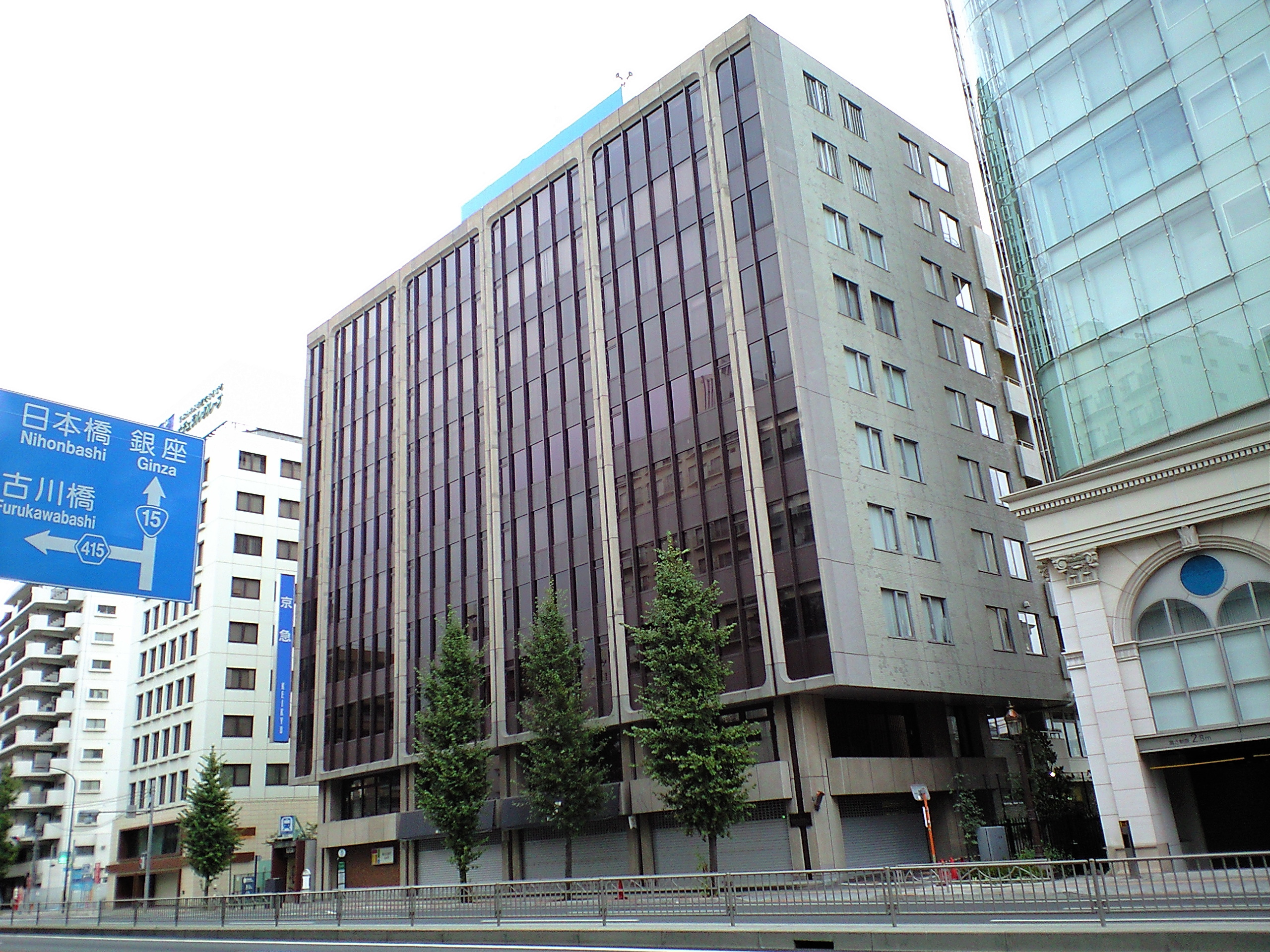 KeikyuCorporation head office in Tokyo, which also houses entrance A1 of Sengakuji Station